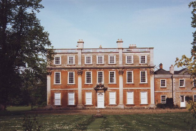 Hinwick House, Near Podington, Bedfordshire. The House, not to be confused with the Hall, dates from the 18th Century. It is built with the typical golden sandstone of the region. It is now in the process of restoration.